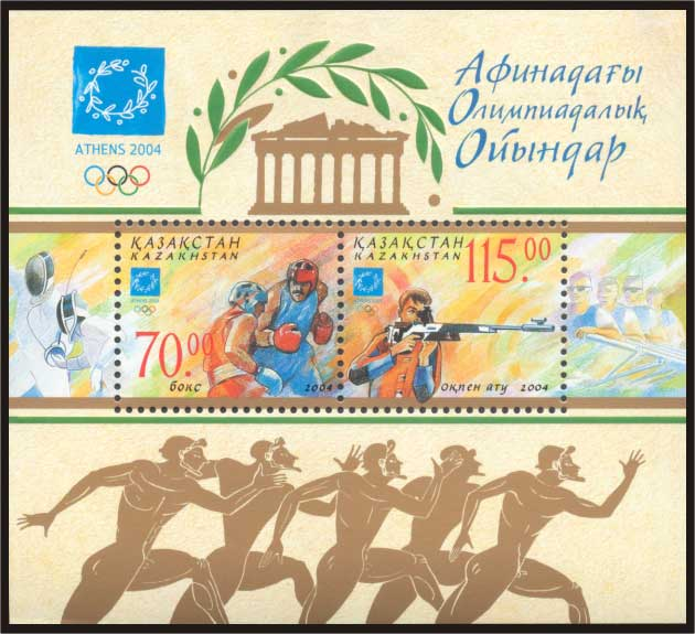 Stamp of Kazakhstan